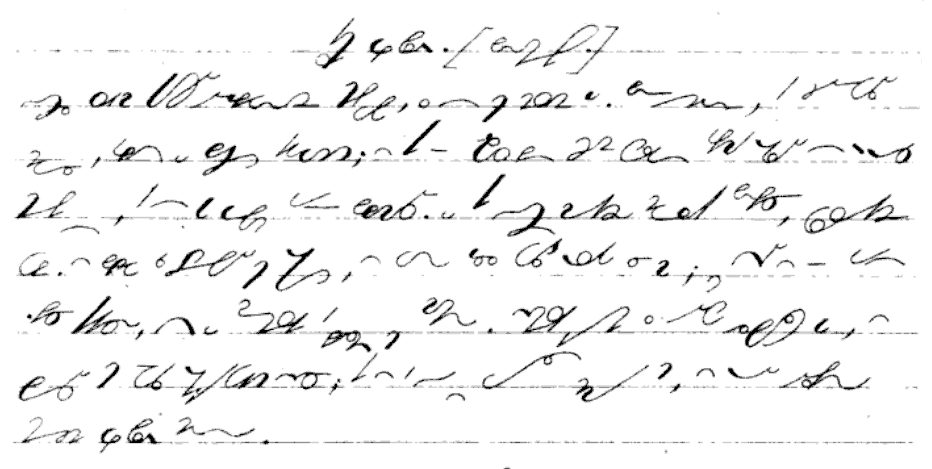 Part of a shorthand reading exercise in Wilhelm Stolze's shorthand book "Ausführlicher Lehrgang der deutschen Stenographie", published in 1852.